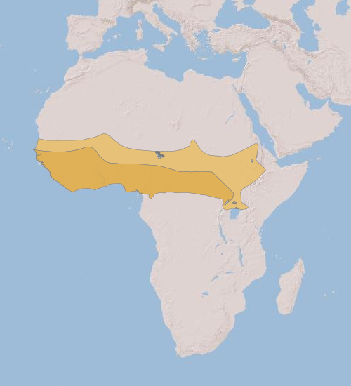 Geographic range of Caprimulgus longipennis. Breeding (dark) and non-breeding (light) areas.